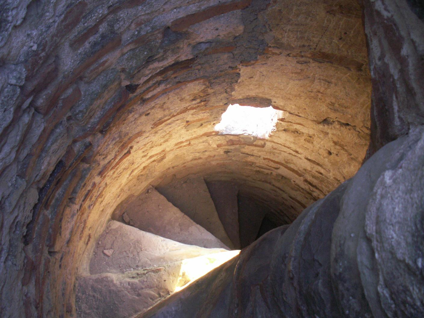 Berat, Old Town - Driving Albania 142